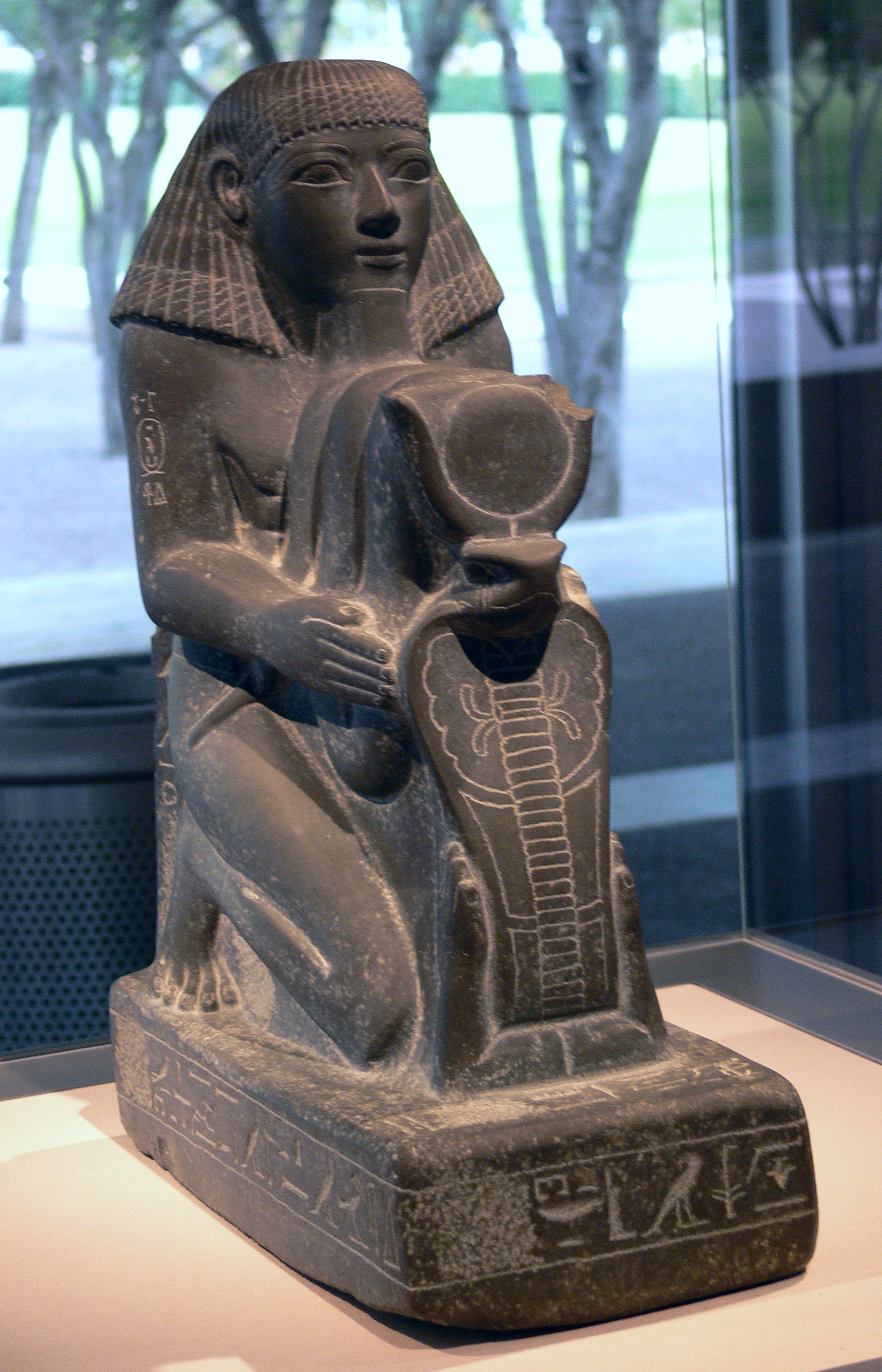 Kneeling Statue of Senenmut, Chief Steward of Queen Hatshepsut